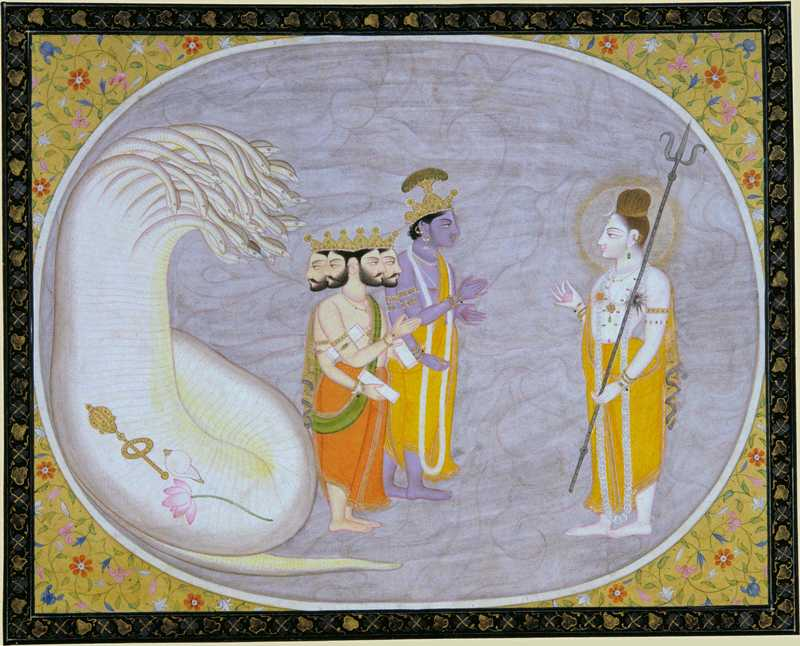 The Cosmic Ocean Reveals Brahma, Vishnu and Shiva. Style of Sajnu. North India, Panjab Hills, Mandi. Opaque watercolor and gold on paper. Edwin Binney 3rd Collection, San Diego Museum.